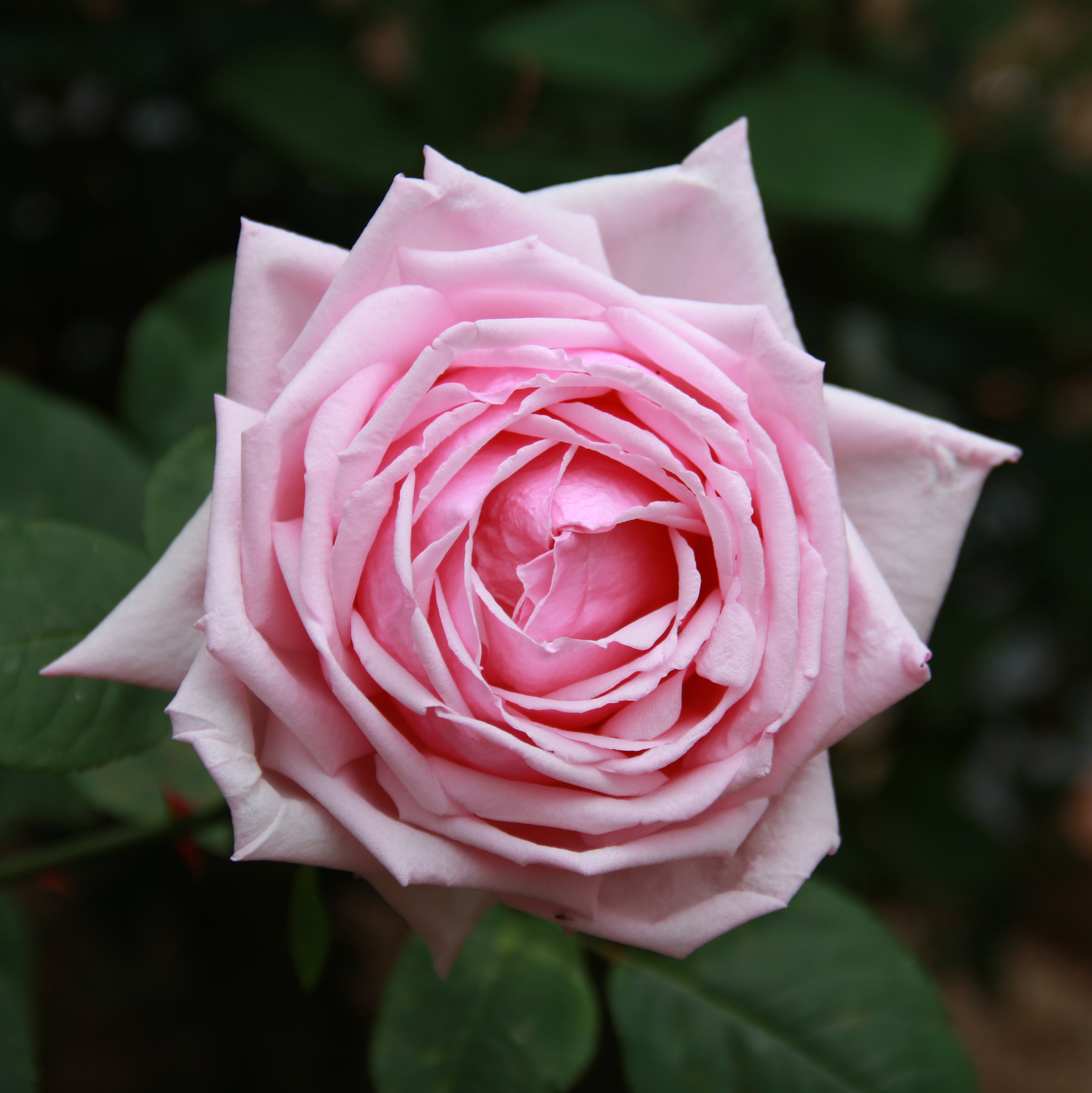 Rosa 'La France'